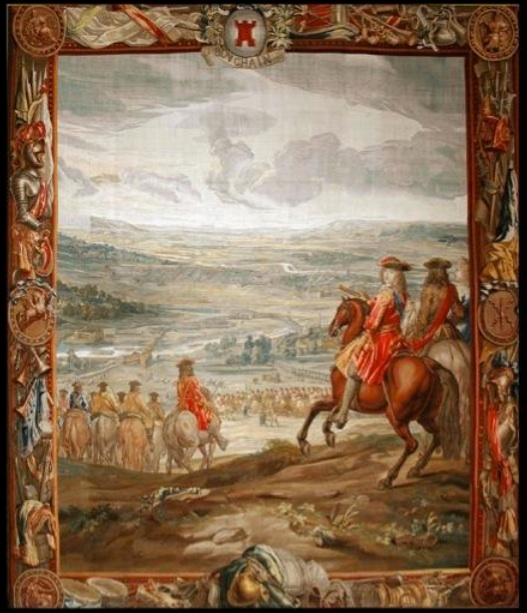 The second of the Bouchain tapestries shows the first stages of the surrounding of Bouchain. It also depicts the river Scheldt and the village of Sensee